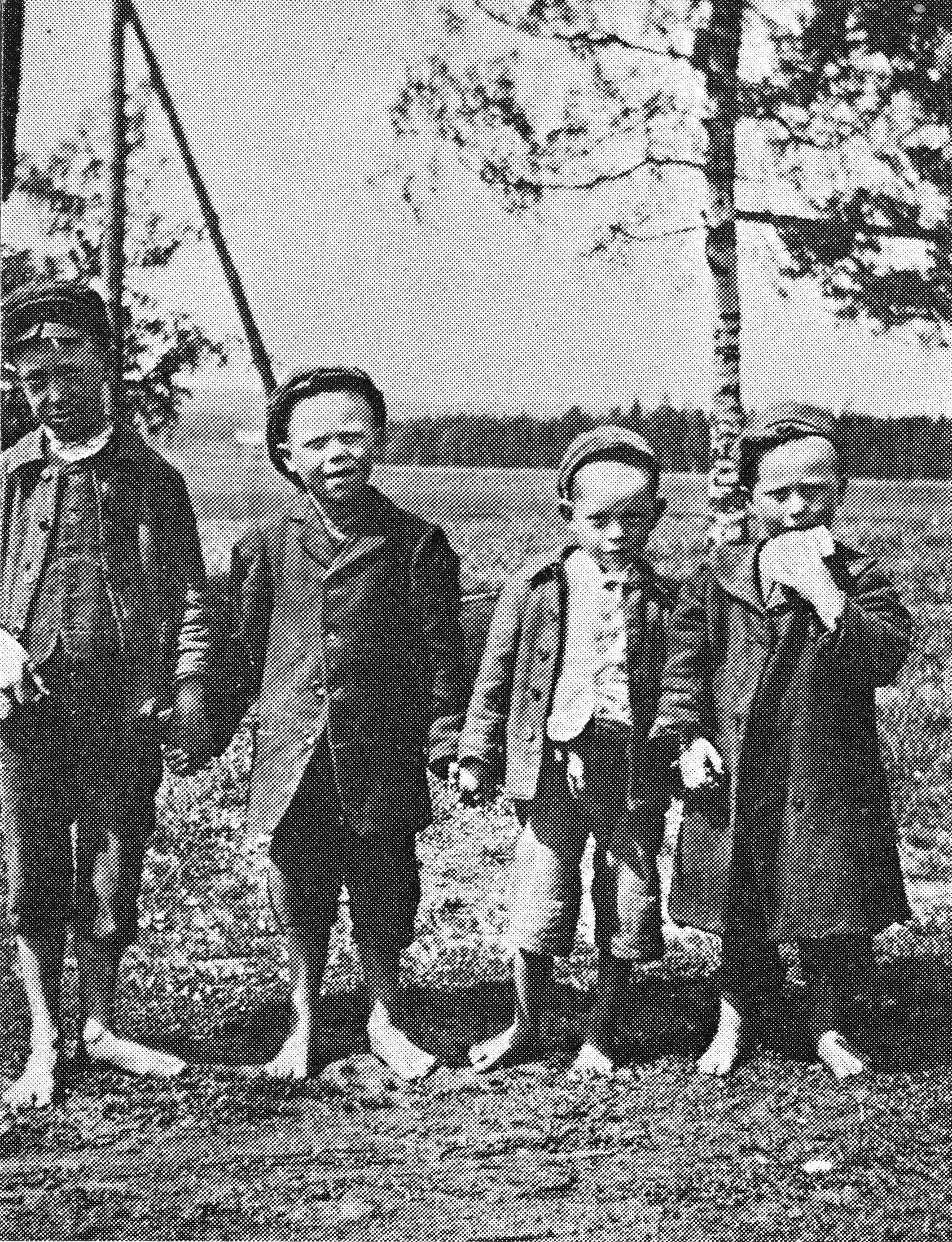 Pauper children from Grythyttan in Västmanland county, Sweden.